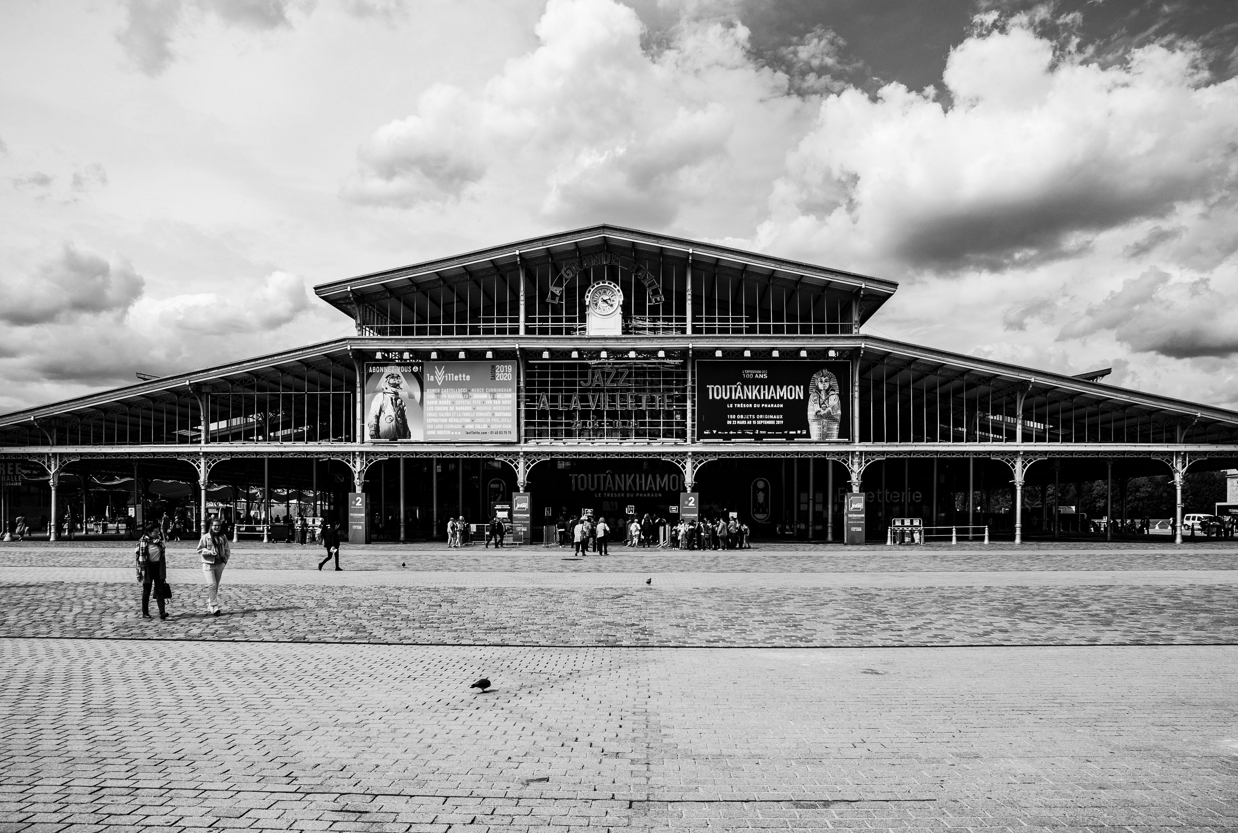 Grande Halle de la Villette during the Toutânkhamon exhibition, the pharaoh’s treasure - Paris 2019